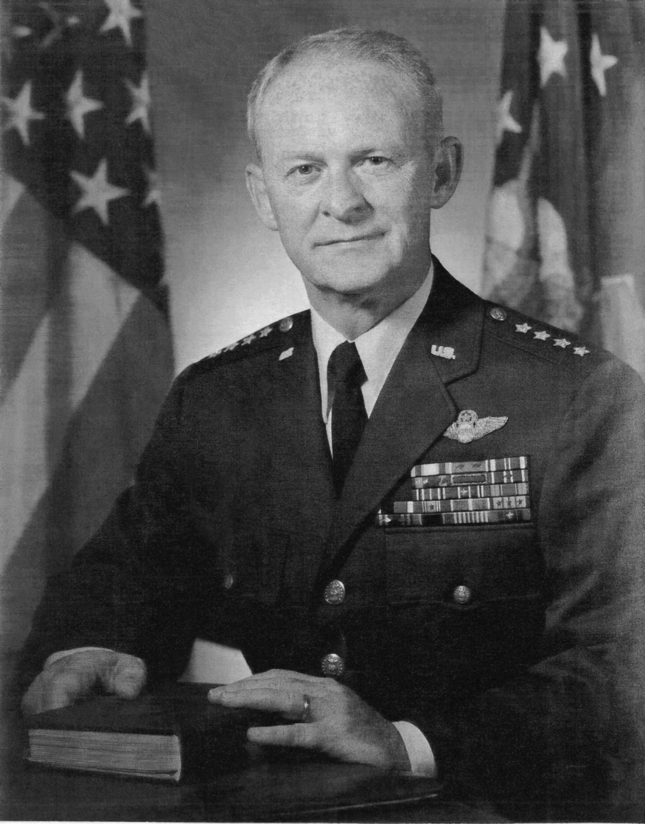 General William V. McBride in an official USAF photo. Original in color. NARA Citation 342-B-12271-KN-54977